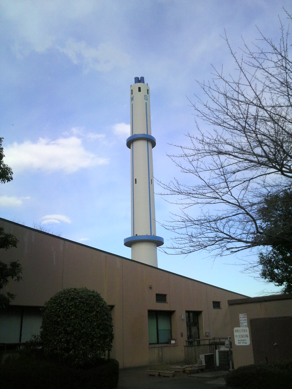 hodogaya seisou factory